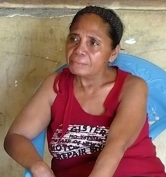 Vice-President Olinda Guterres of the political party Khunto at their party office in Dili, Timor-Leste